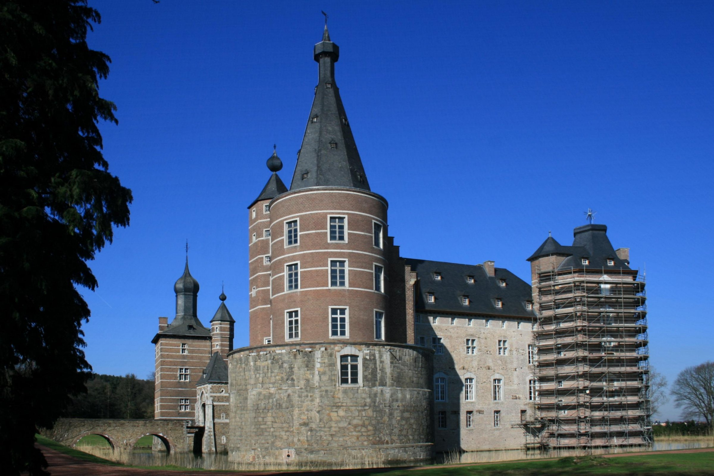 Cultural heritage monument No. 18 in Langerwehe